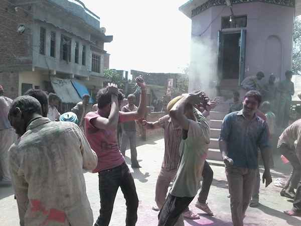 Holi Festival in Sundhiyamau.